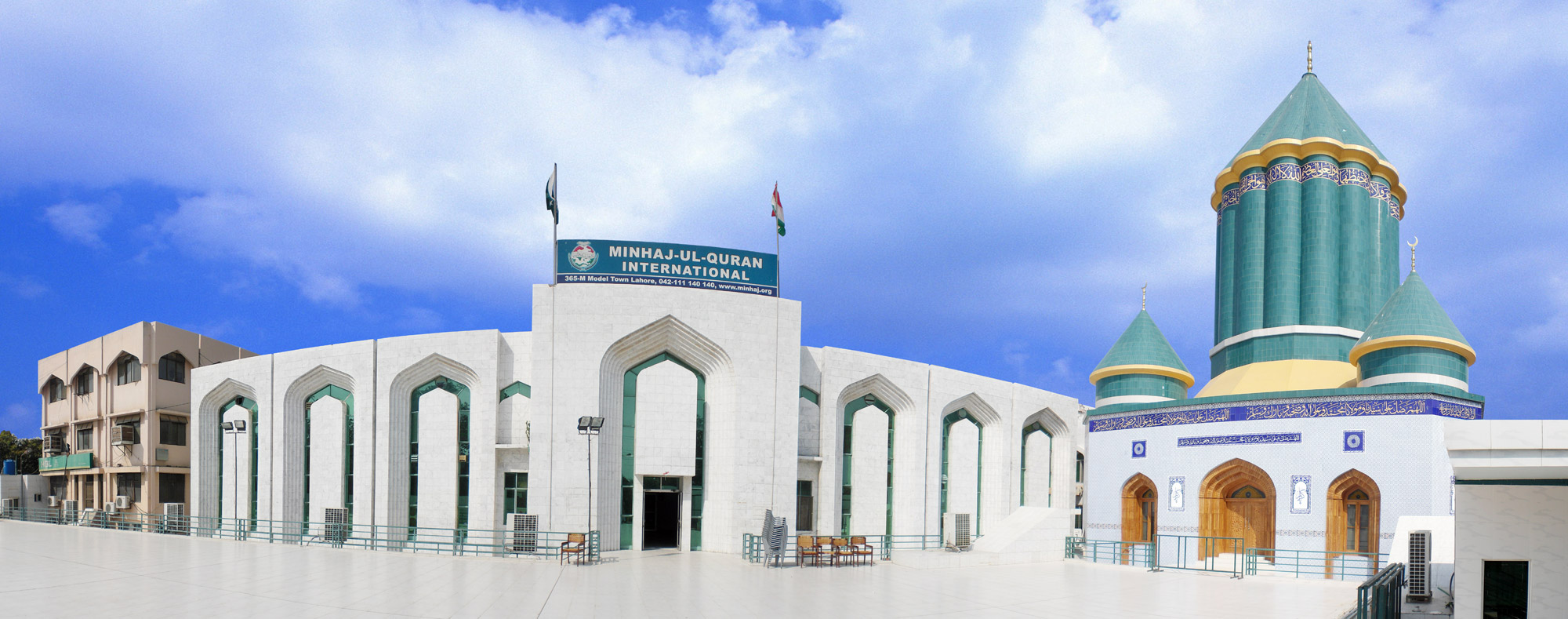 Central Secretariat of Minhaj-ul-Quran International, Lahore Pakistan